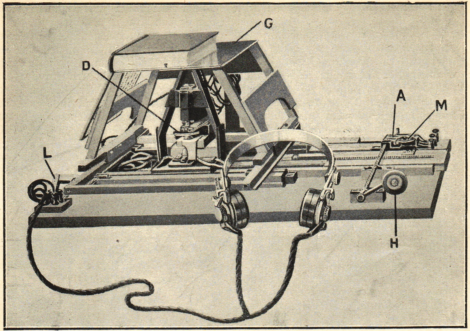 Detail view of the optophone. A, switch for the electric lamp; D, perforated disk, placed in front of the lamp and driven by a small electric motor from the commutator M; G, glass plate, on which the image of slit placed above the disk; H, a crank, by which the operator can move the carriage with the lamp and disk from right to left; L, a line changer, which moves the pulpit, on which the glass plate with the book rests.